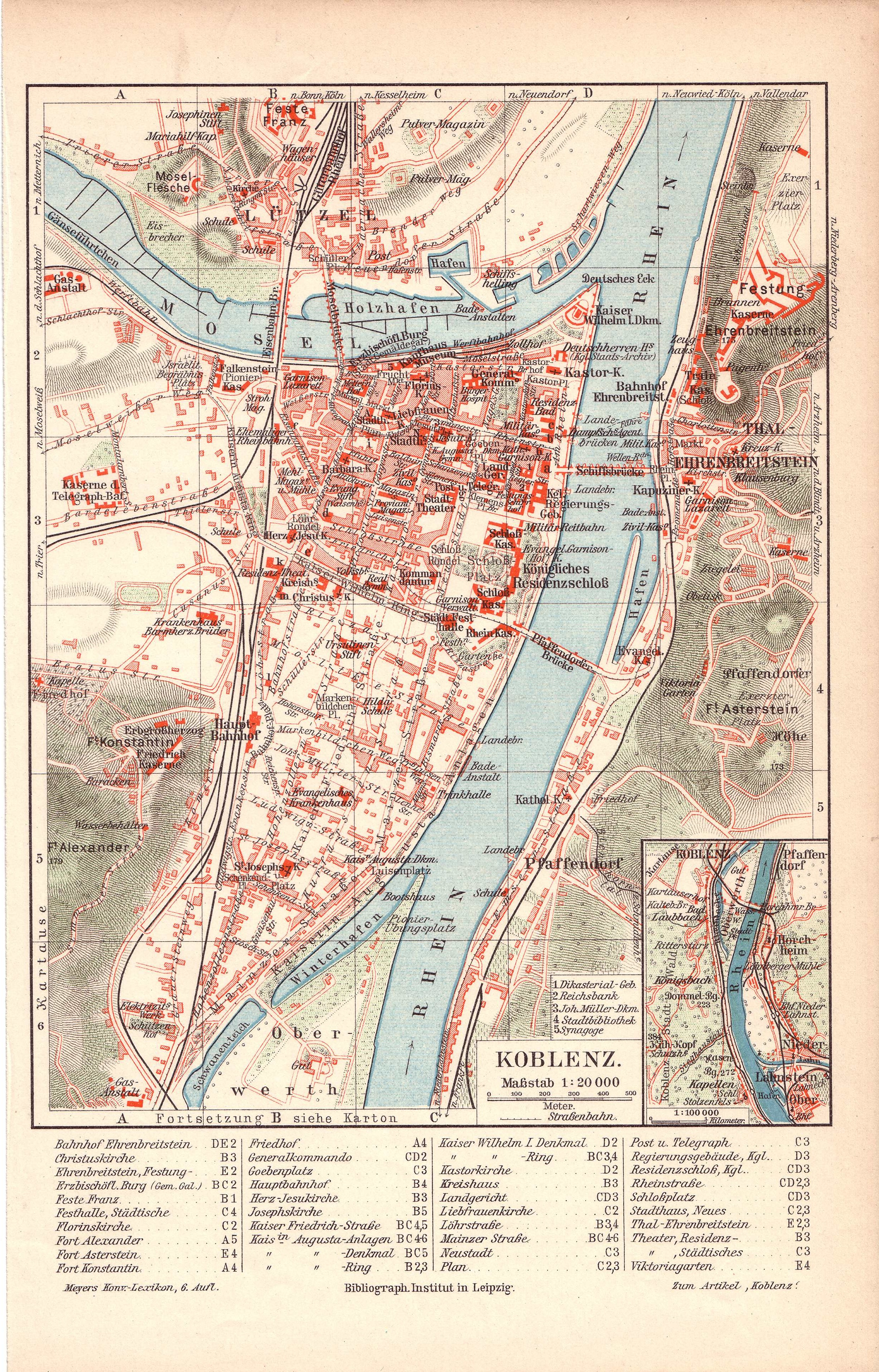 Map of Koblenz 1905